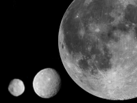 The asteroid (4) Vesta and the dwarf planet (1) Ceres shown alongside the Earth's Moon. The scale is 20 km/px. The image was made from File:Ceres optimized.jpg, [1], and Image:Moon PIA00302.jpg